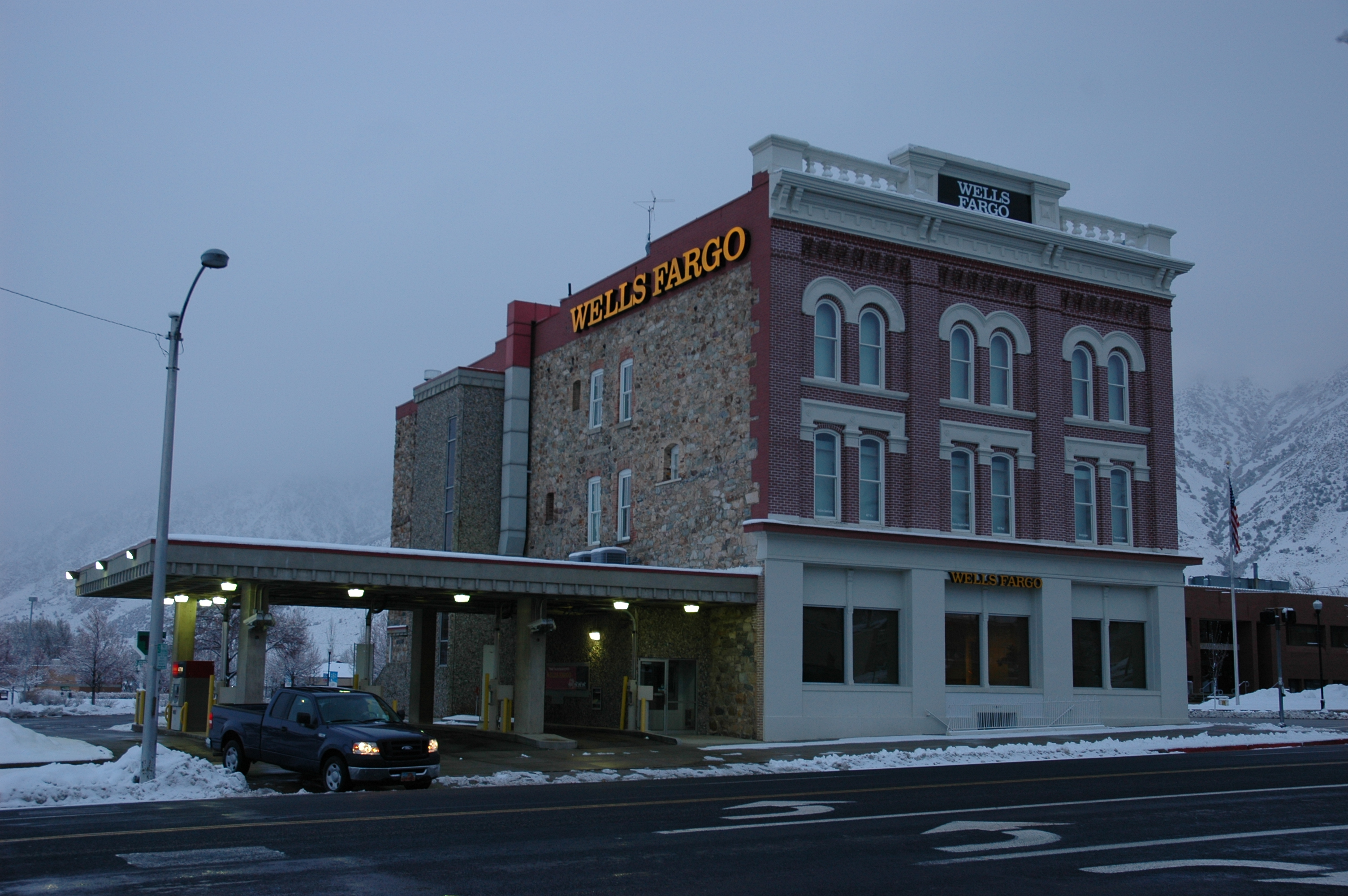 This historic building, formerly the Brigham City Mercantile and Manufacturing Association Mercantile Store, currently houses a Wells Fargo bank branch in Brigham City, Utah, United States